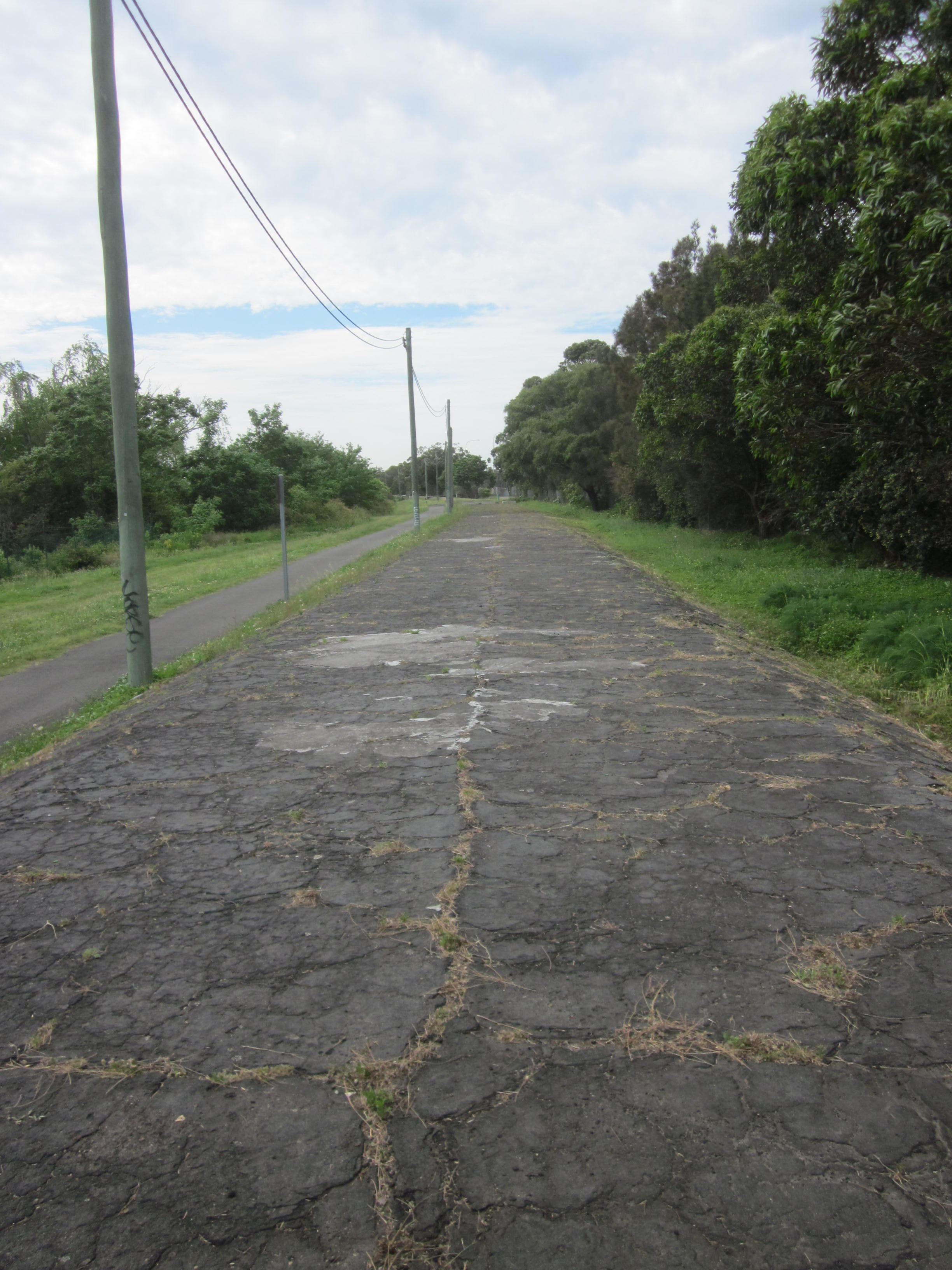 The actual heritage items, as described in the reference cited for the page, were not seen. This photograph was taken after walking under the pedestrian underpass adjacent to the M5 freeway. There are a number of photographs included on the reference page.